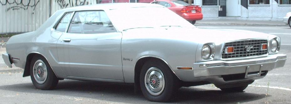 1973-1978 Ford Mustang II photographed in Montreal, Quebec, Canada.